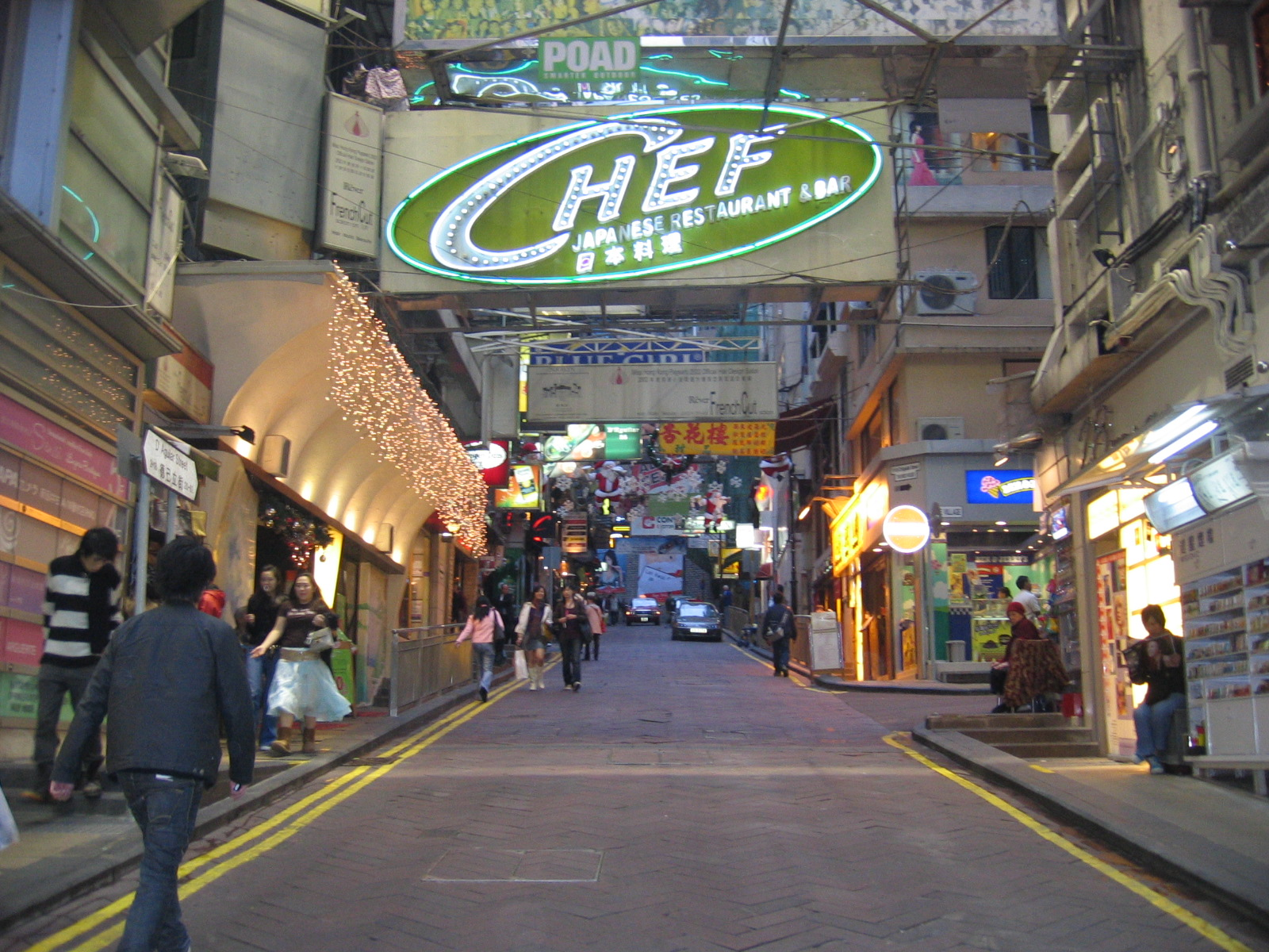 D'Aguilar Street towards Lan Kwai Fong, Central, Hong Kong.